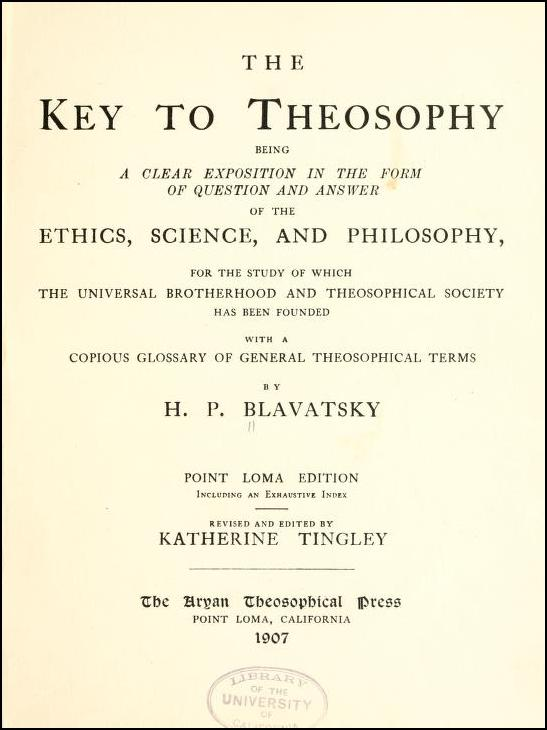 Helena Blavatsky's book The Key to Theosophy, Point Loma ed.